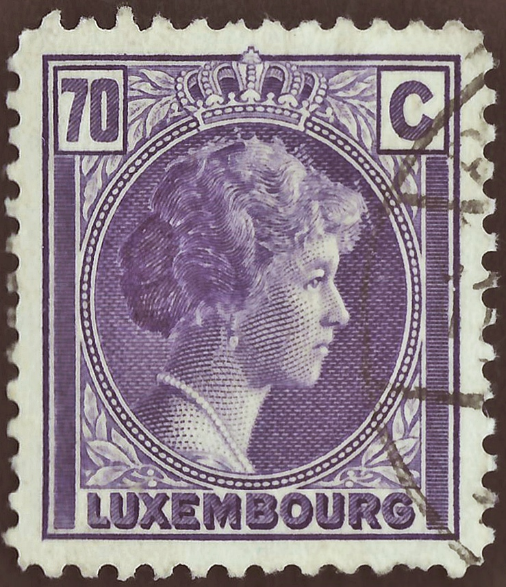 Stamp of the Grand Duchy of Luxembourg; 1935; definitive stamp of the issue "Grand Duchesse Charlotte"; drawing with the side-portrait of the Grand Duchesse Charlotte of Luxemburg (viewing to right) within barred oval (standing) with crown; stamp postmarked Stamp: Michel: No. 281; Yvert et Tellier: No. 249; AFA: No. 227 Color: violet to violet grey Watermark: none Nominal value: 70 C (Centimes) Postage validity: from 1 June 1935 until ? Stamp picture size (printed area): 19.0 x 22.0 mm